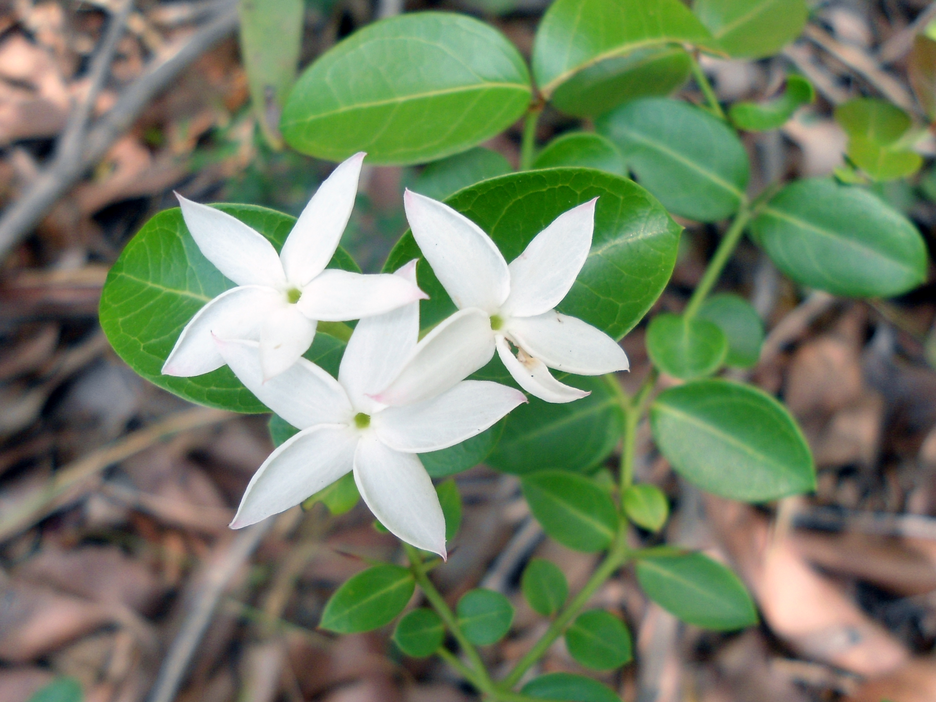 Flowers of Carissa carandas(Vaaka) at Kambalakonda Wildlife Sanctuary